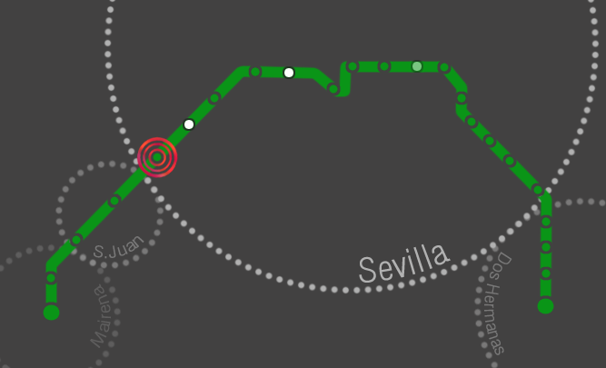 location